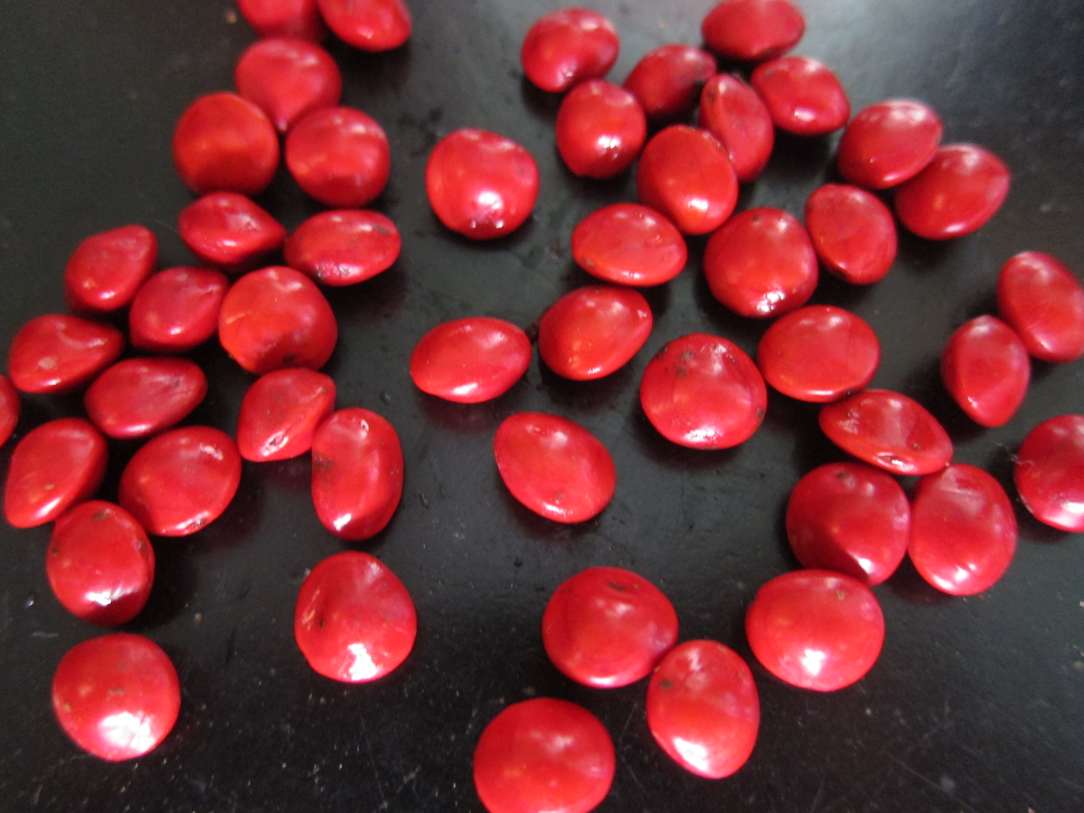 Adenanthera Pavonina - മഞ്ചാടി, മഞ്ചാടിക്കുരു